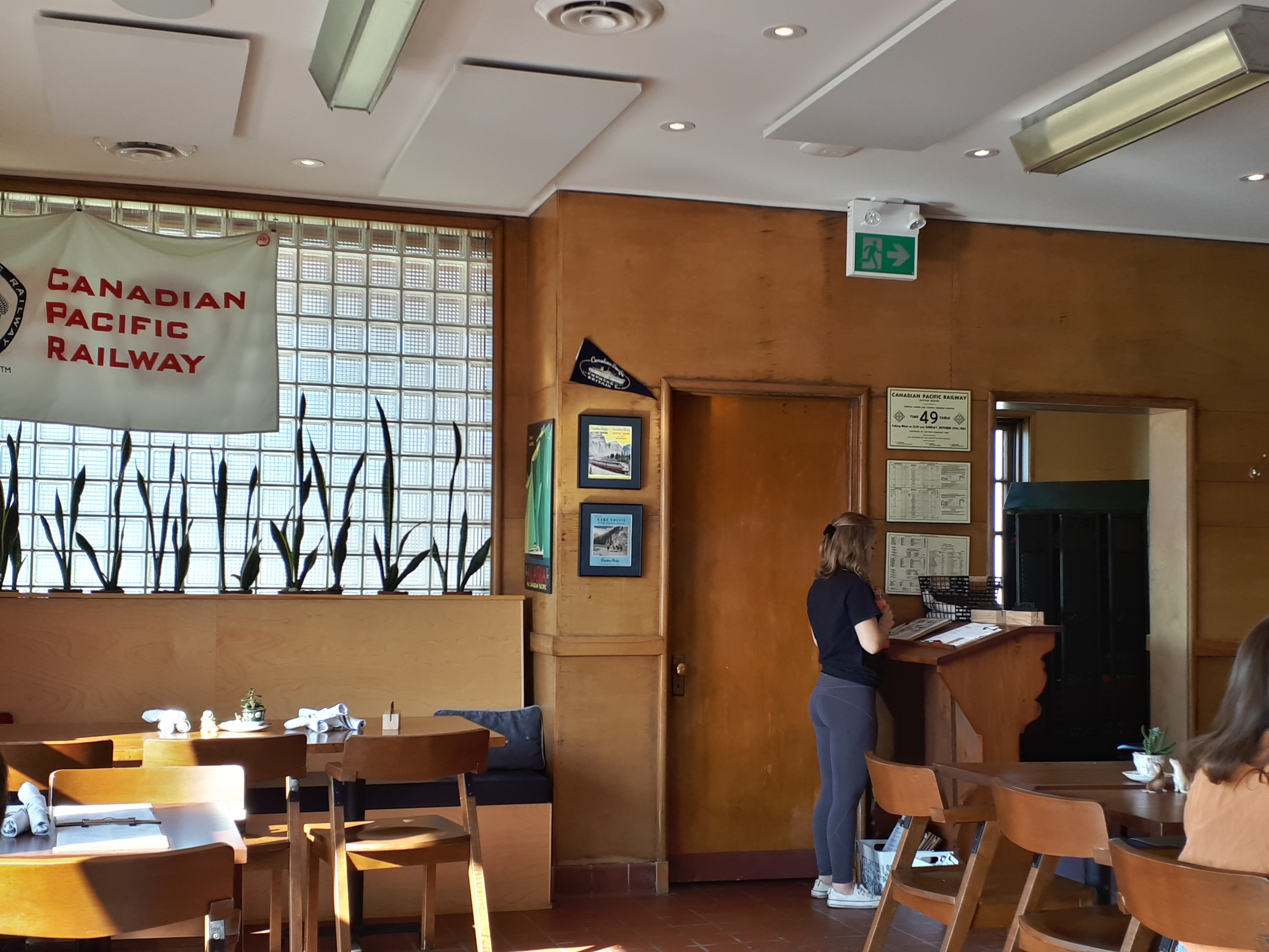 Dining area of the station.